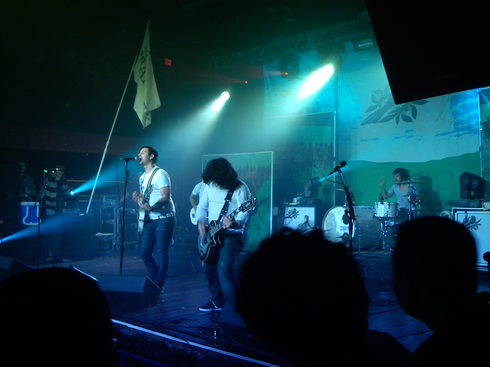 Sent from my iPhone